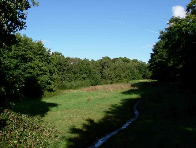 Footpath on Hampstead Heath. A footpath across Hampstead Heath running almost parallel to West Heath Road. The photo was taken looking almost due west.